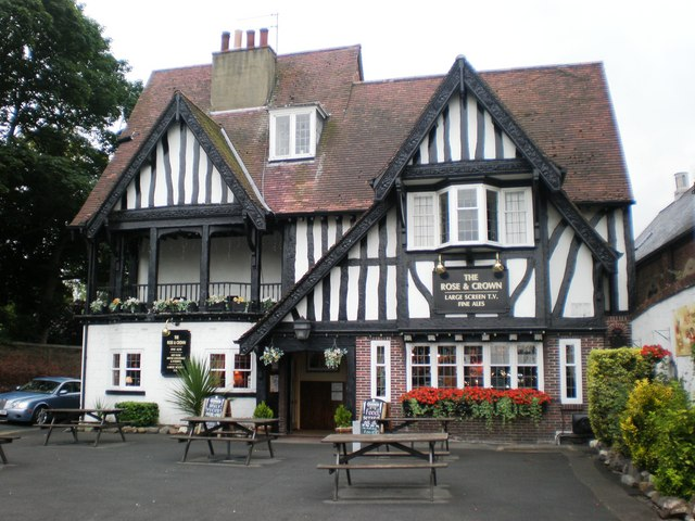 The Rose and Crown, Beverley, East Riding of Yorkshire, England.This public house in Beverley is situated on the corner of the junction of the A1035 with the A164 at North Bar Without, next to St. John of Beverley's Catholic church.